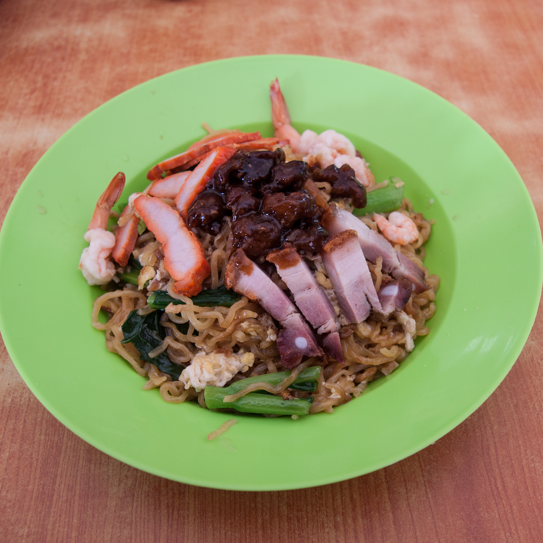 Tuaran Mee, served in a Tuaran Mee Restoran in Tuaran, Sabah)